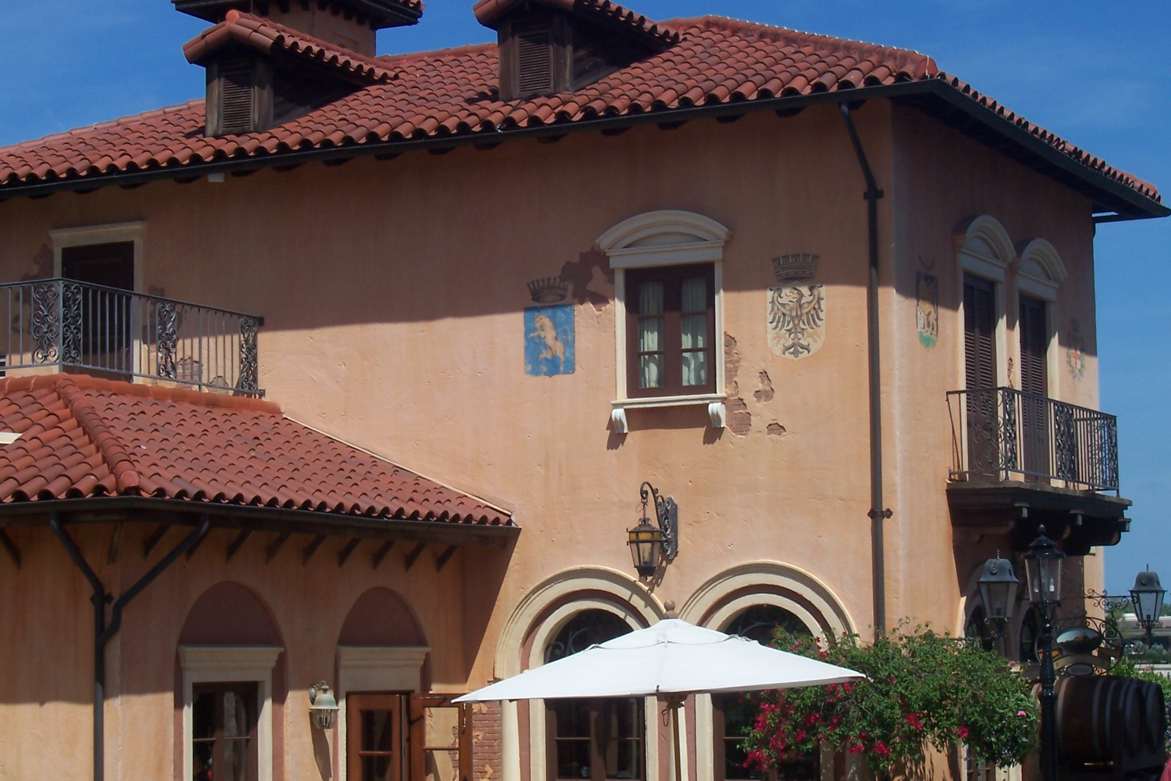 Il Bel Cristallo in the Epcot world showcase at the Italy Pavillion